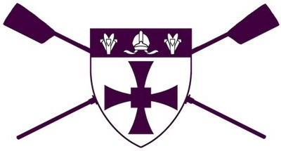 Derivative of St Mary's College Crest